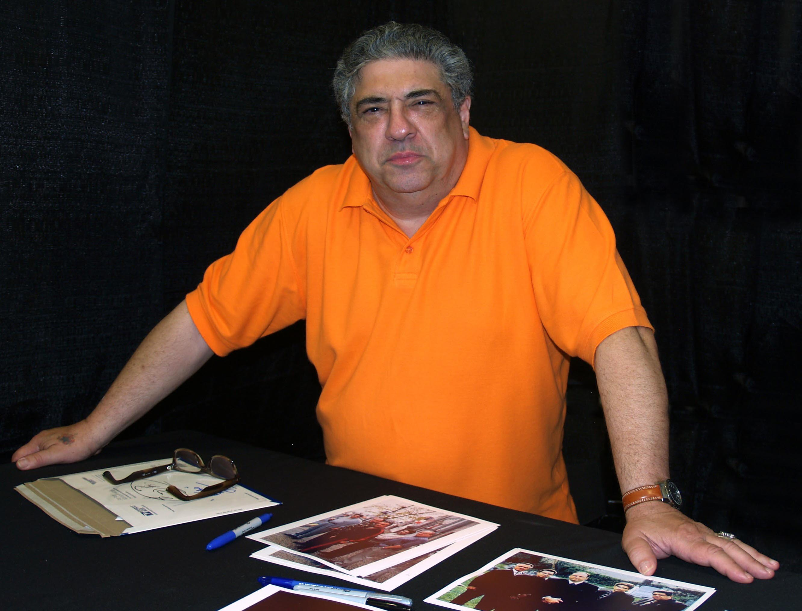 American actor Vincent Pastore at the 2013 Wizard World New York Experience Comic Con, at Pier 36 in Manhattan, June 30, 2013. This photo was created by Luigi Novi. It is not in the public domain, and use of this file outside of the licensing terms is a copyright violation.